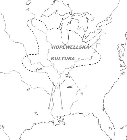 Hopewellska kultura